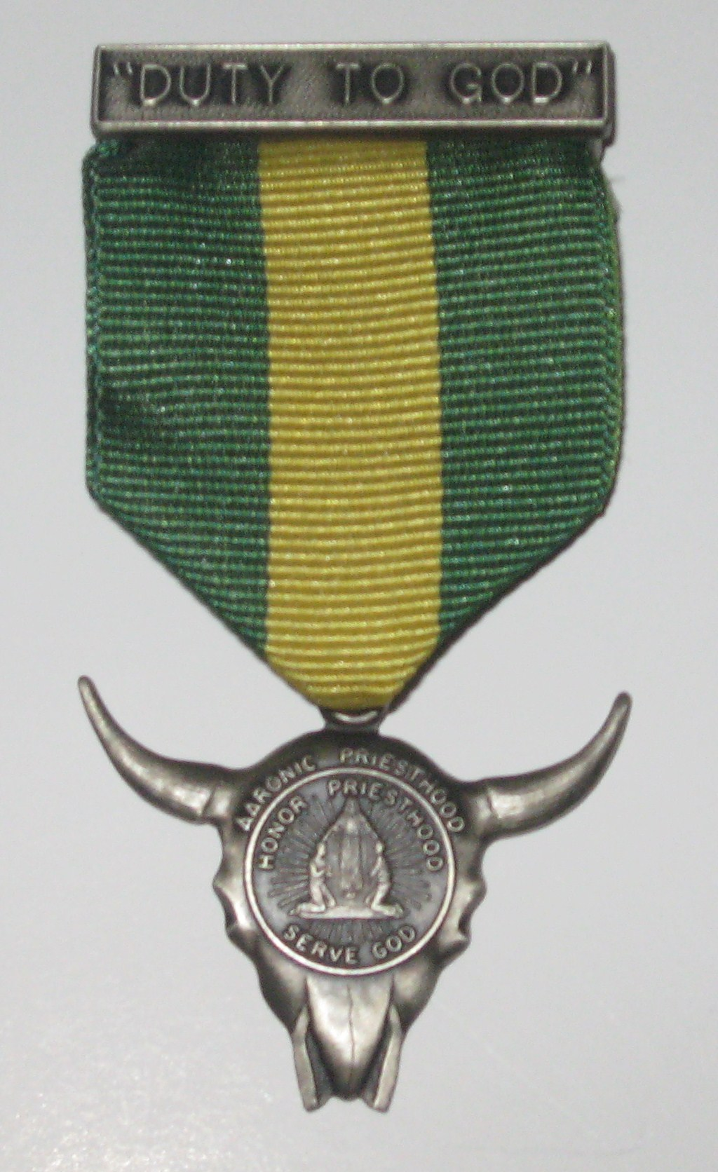 The Duty to God Award in use prior to 2002. This was presented to young male members of The Church of Jesus Christ of Latter-day Saints in conjunction with their participation in the Scouting program of the Boy Scouts of America.